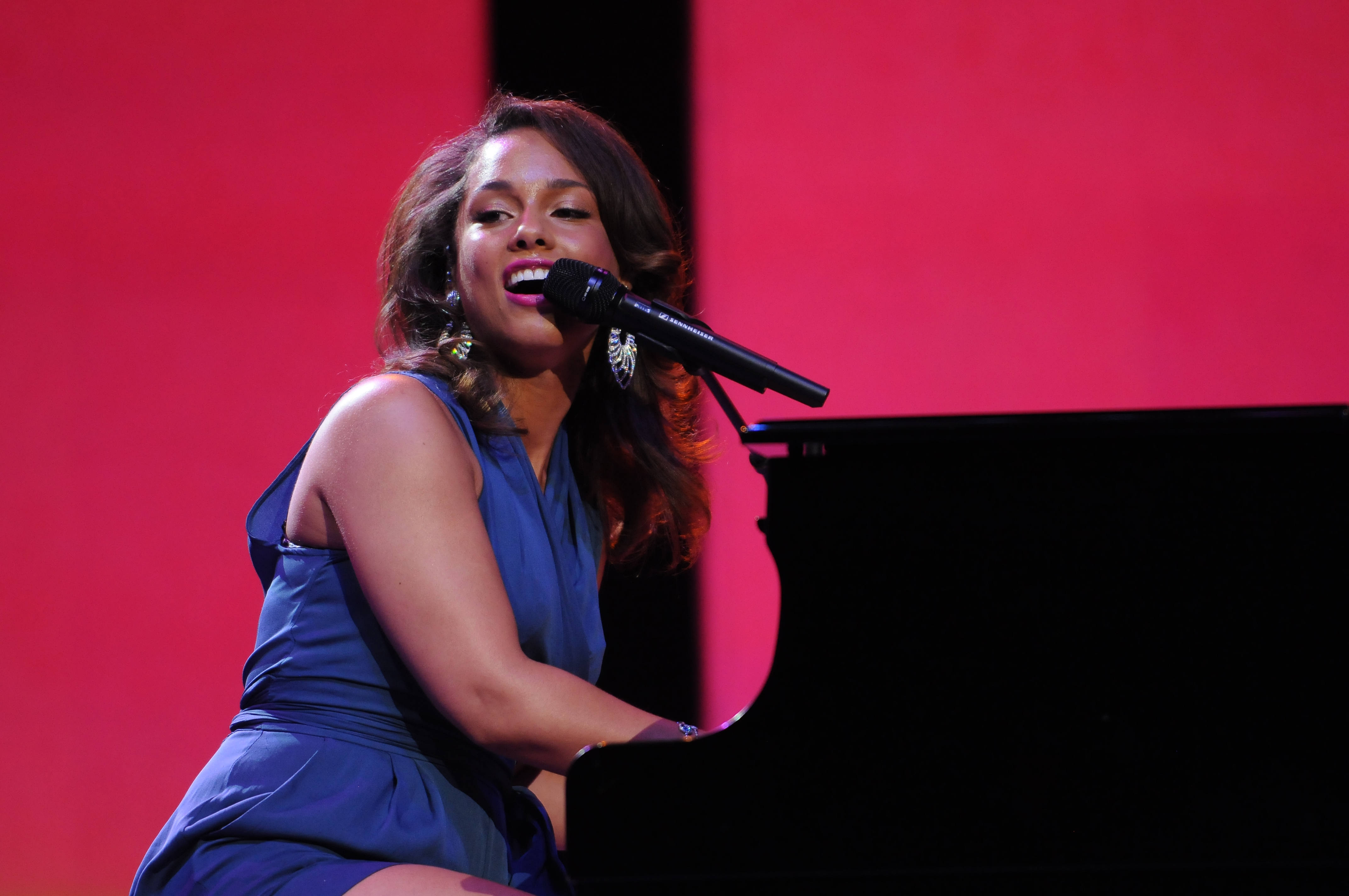 Alicia Keys at the Walmart Shareholders Meeting 2011.